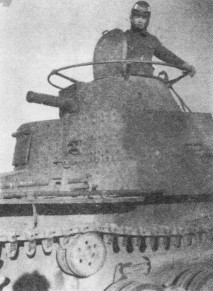 IJA High-Voltage Dynamo tank "Ka-Ha"